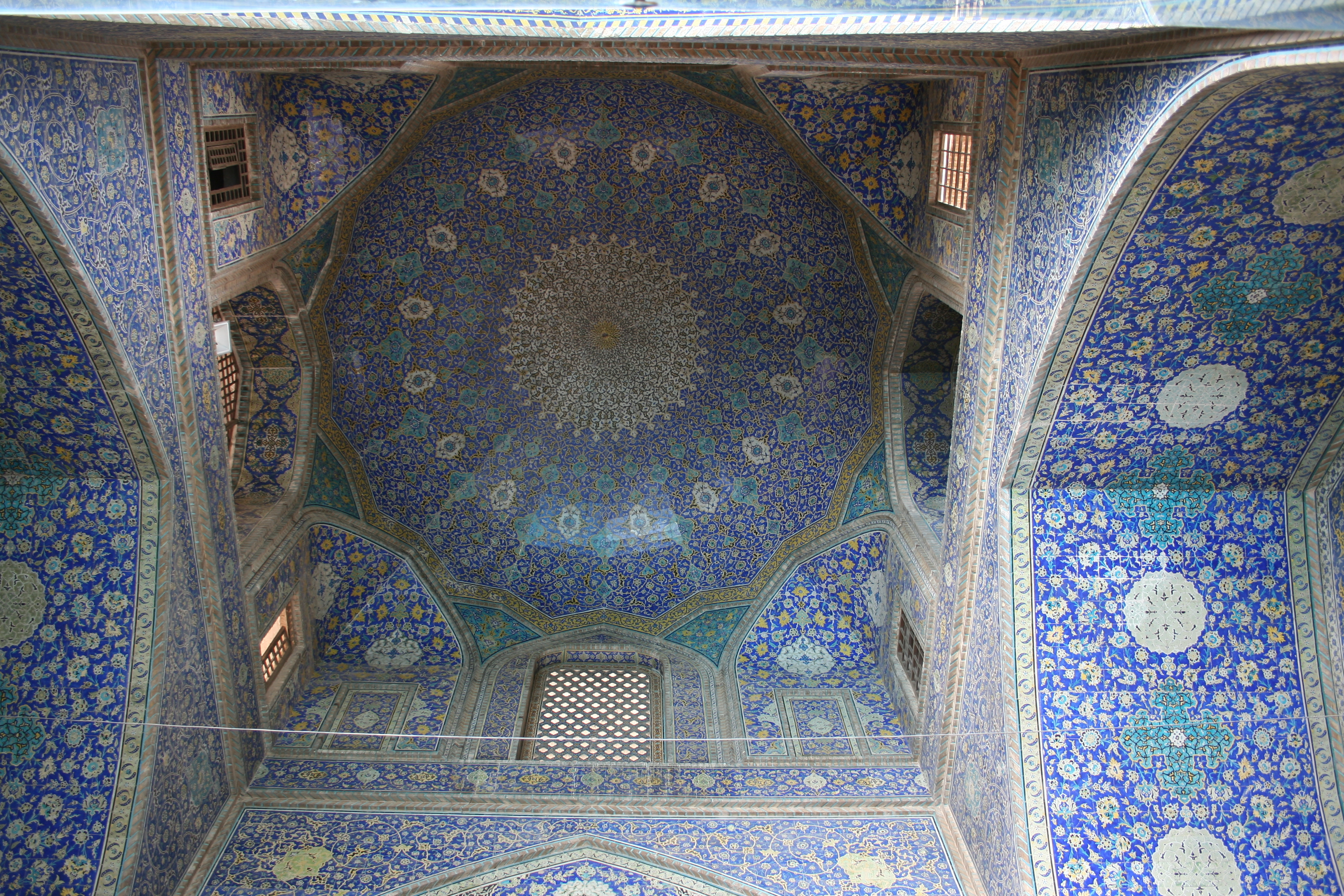 Royal Mosque (Imam Mosque), northern cupola